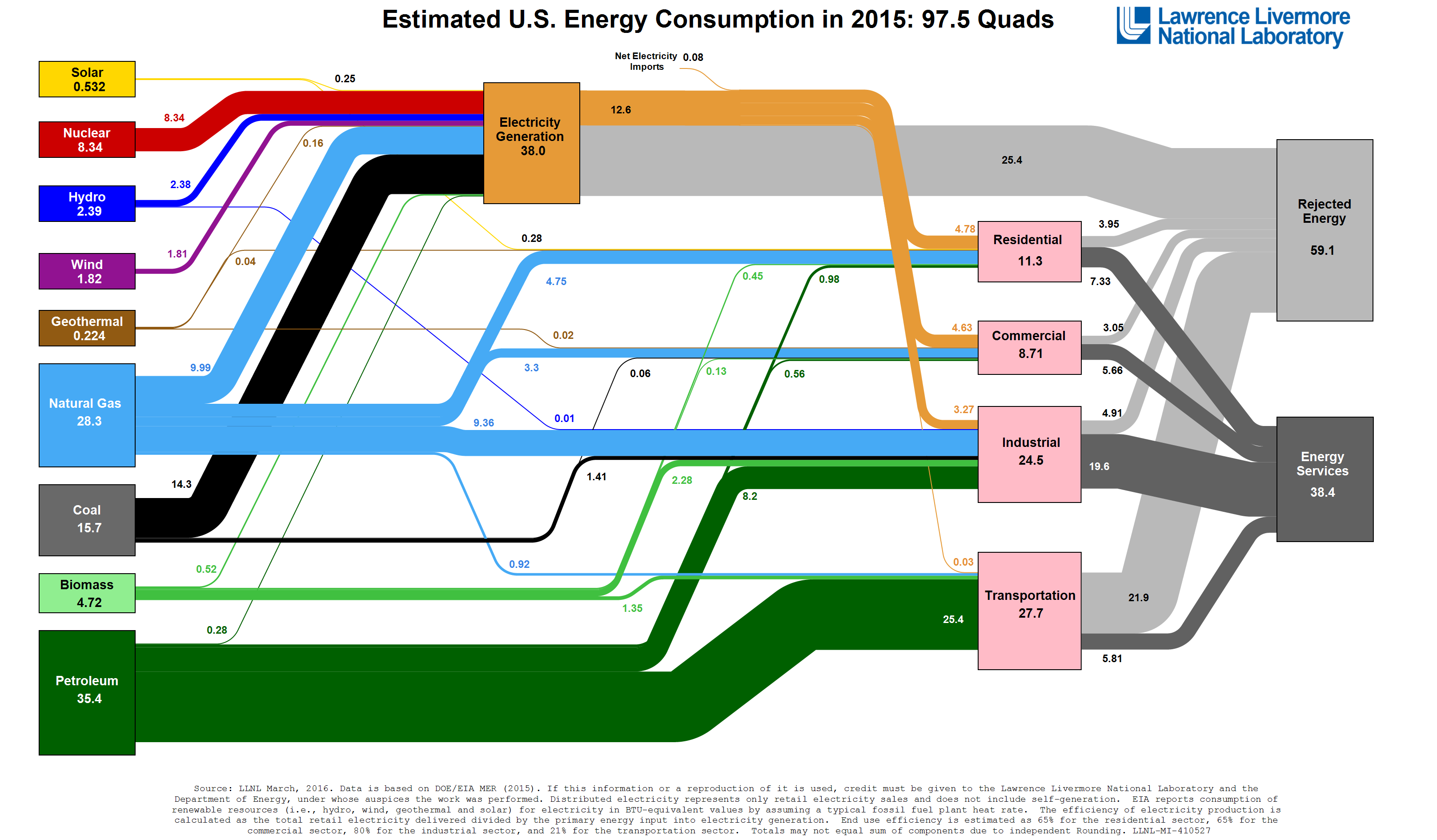 Estimated Energy Use in 2015: 97.5 Quads Energy flow charts show the relative size of primary energy resources and end uses in the United States, with fuels compared on a common energy unit basis.